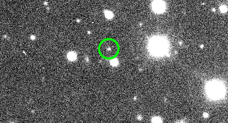 Discovery images of the Jupiter satellite S/2001 J3, later named Hermippe. It was discovered by Scott S. Sheppard and David Jewitt in 2001.